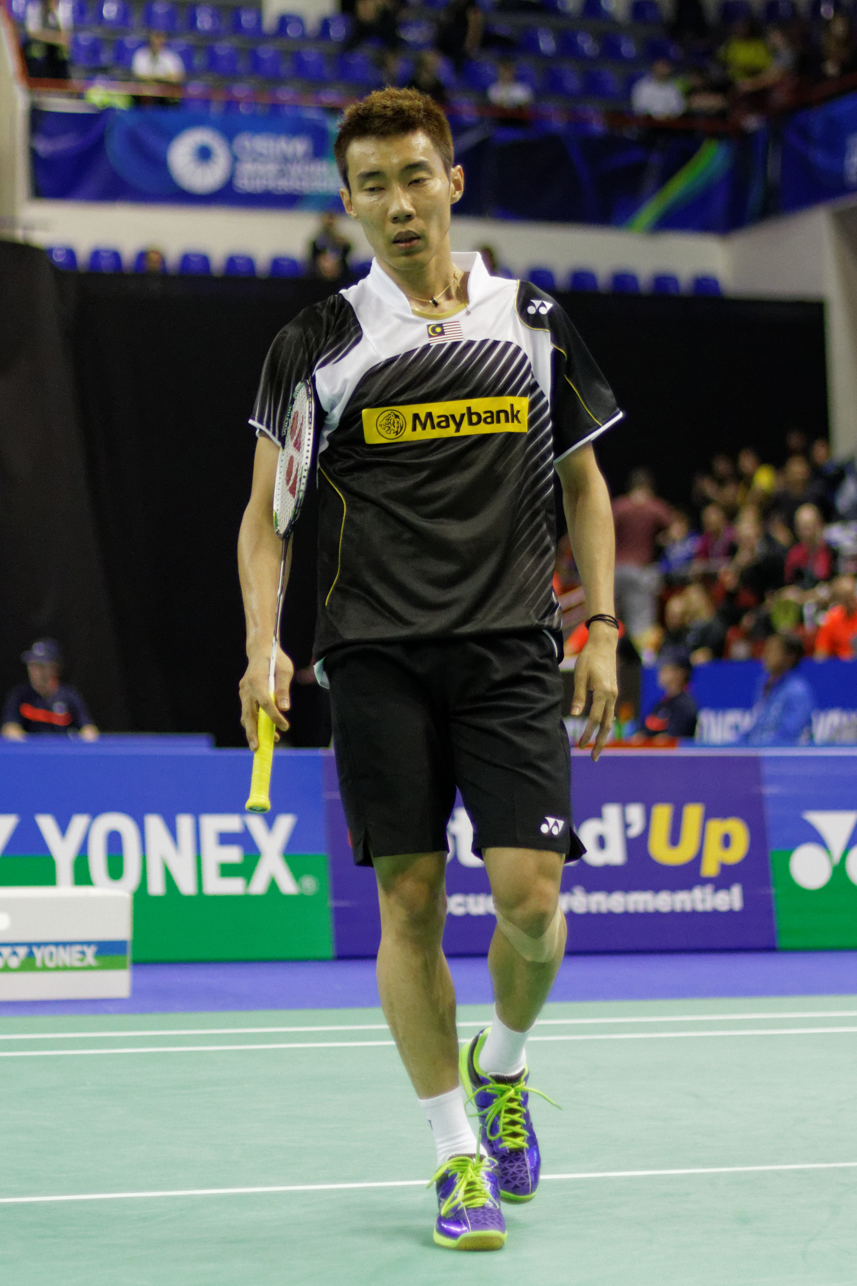 2013 French open. Men's singles quarterfinal. Lee Chong Wei vs Boonsak Ponsana.